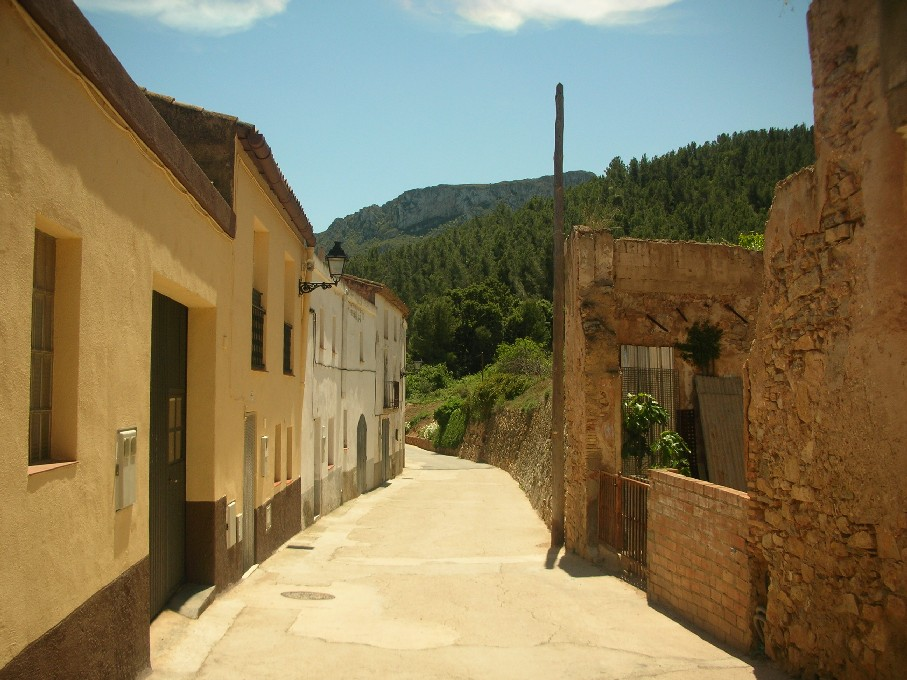 Masriudoms, a village in Baix Camp